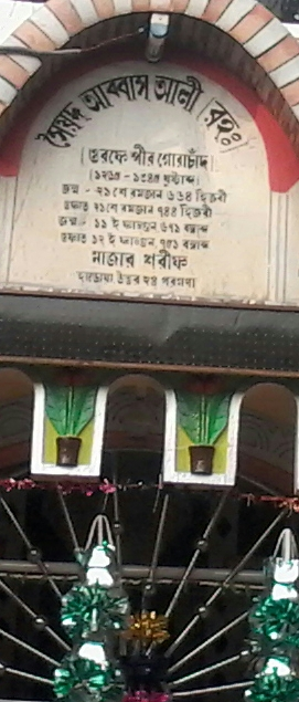 Nameplate of Pir Gorachand Dargah, Haroa, North 24 parganas, West Bengal, India